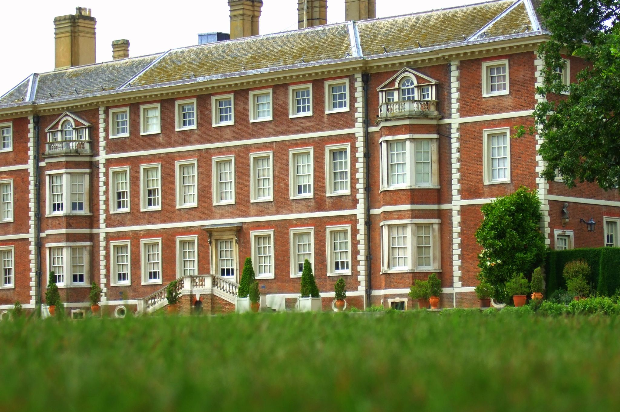 Ham House